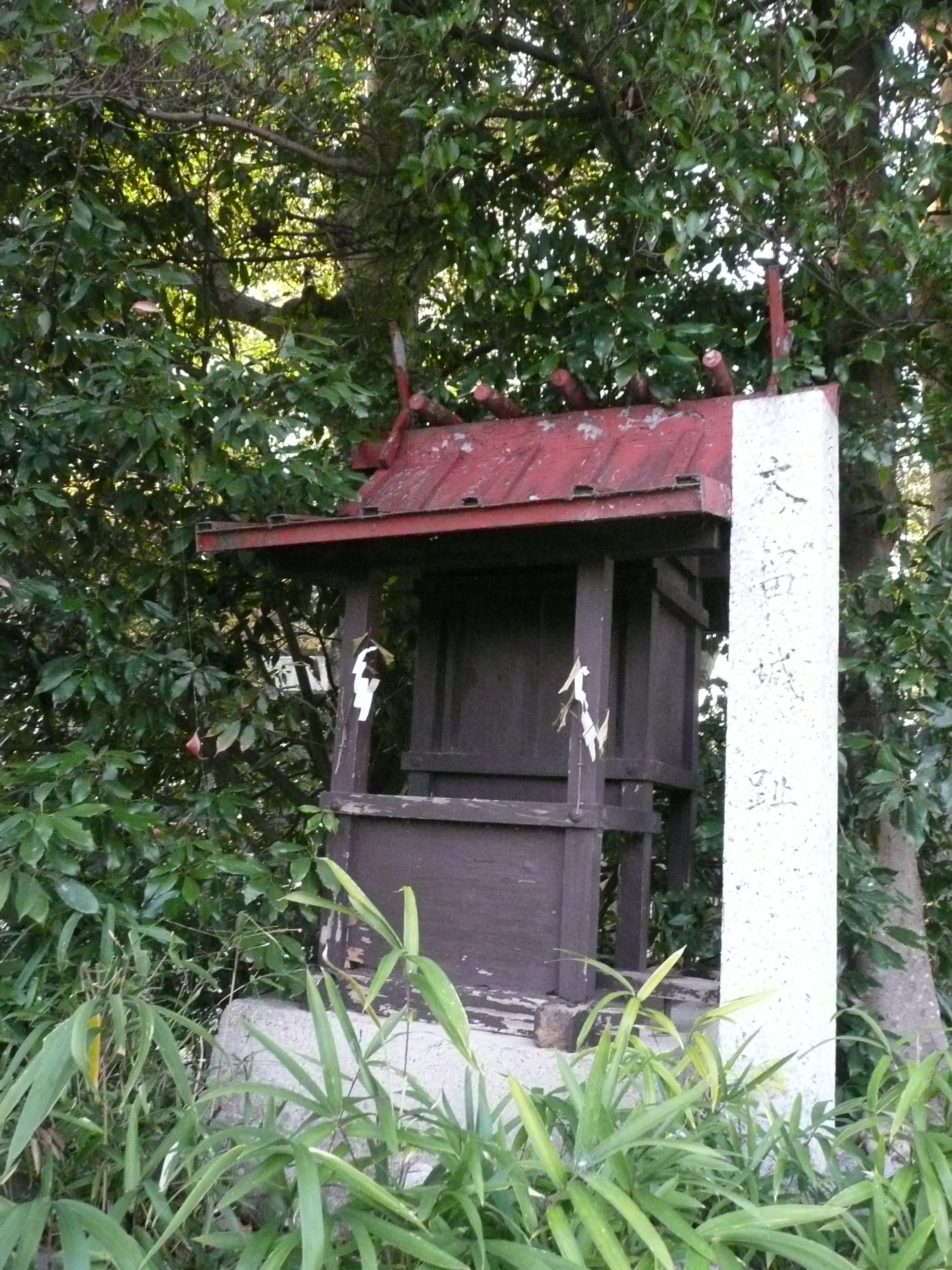 大留城の石碑